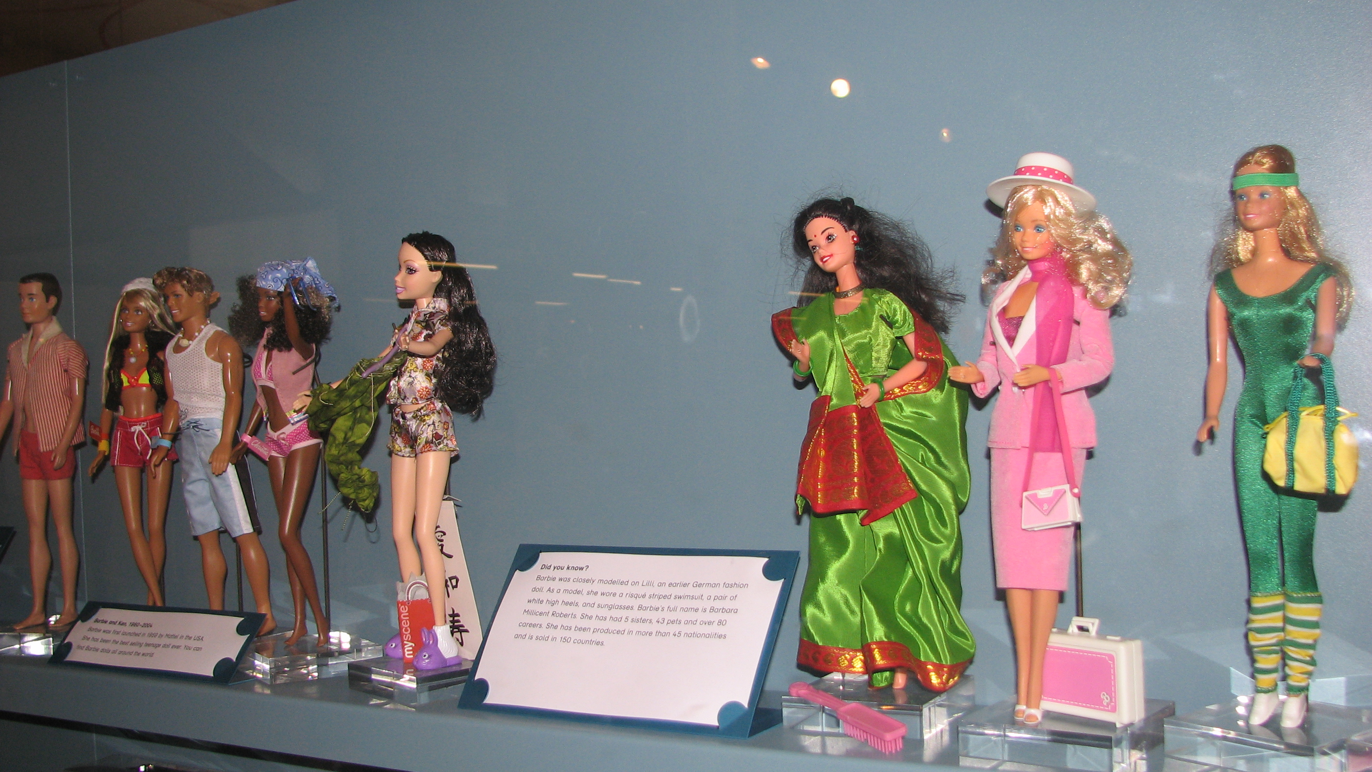 Childhood Museum - London - September 2008